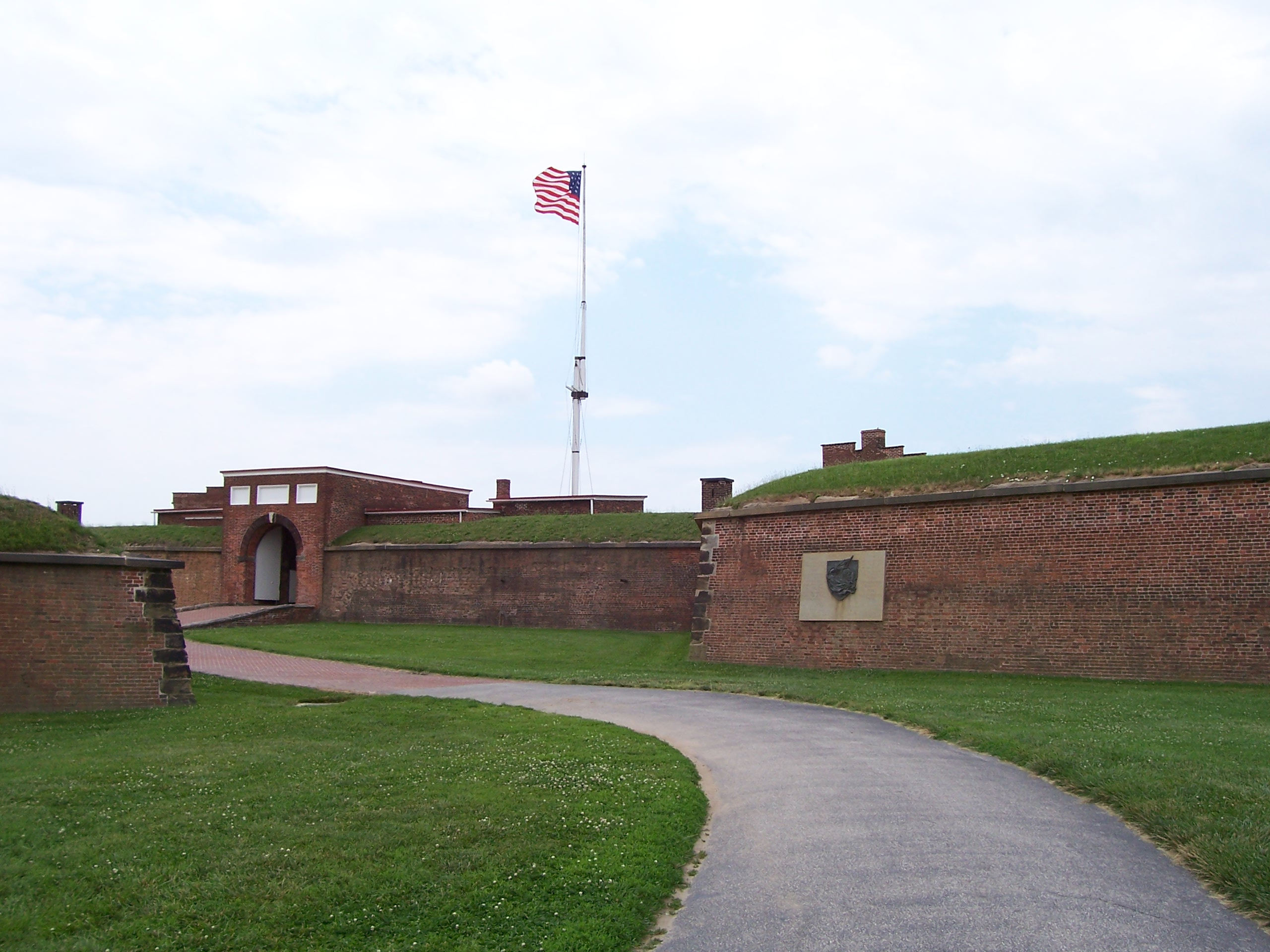 main gate of Fort McHenry, Maryland, USA